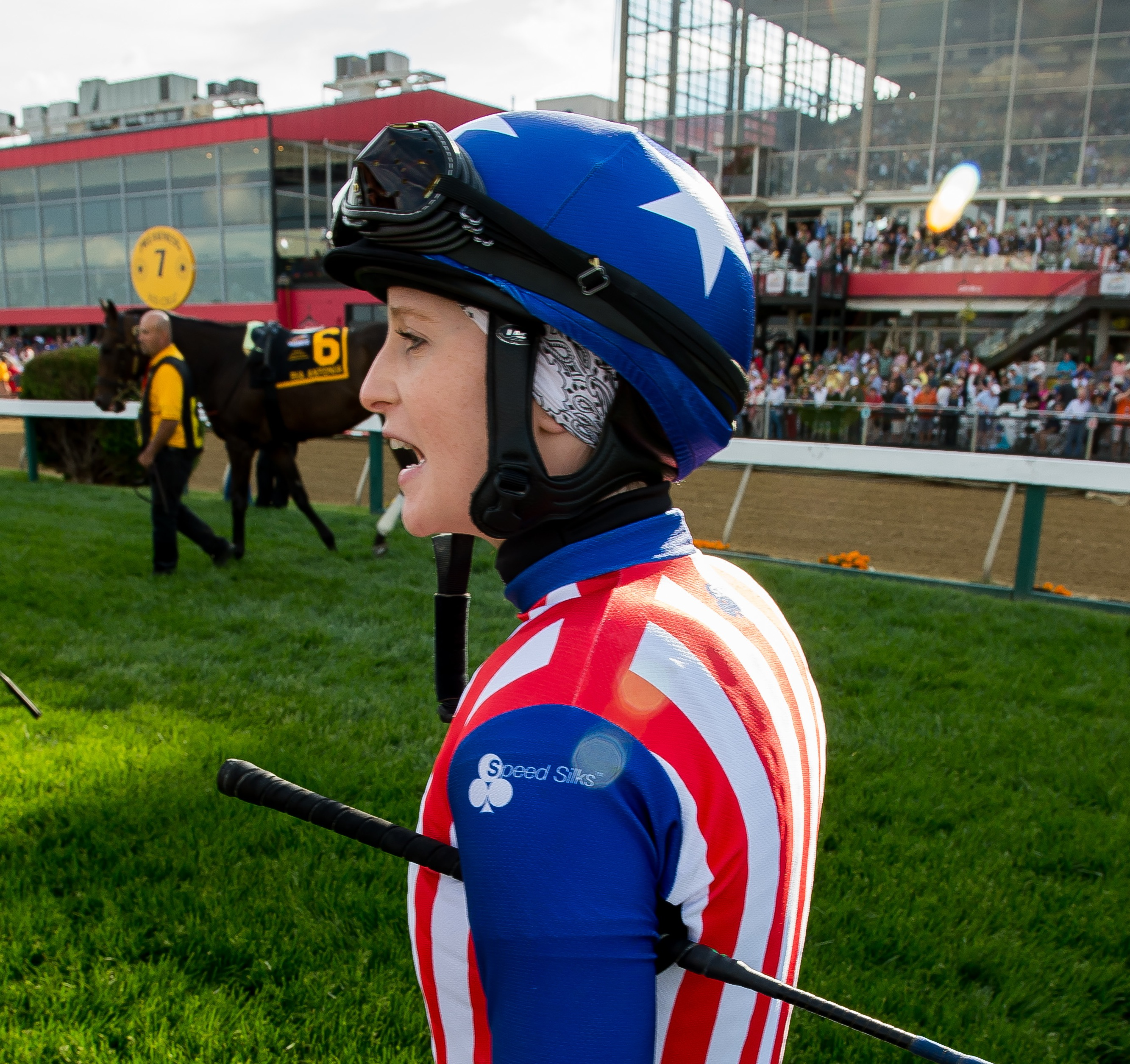 Rosie Napravnik, rider of Bayern at the 139th Preakness Stakes. by Jay Baker at Baltimore, MD. 2014